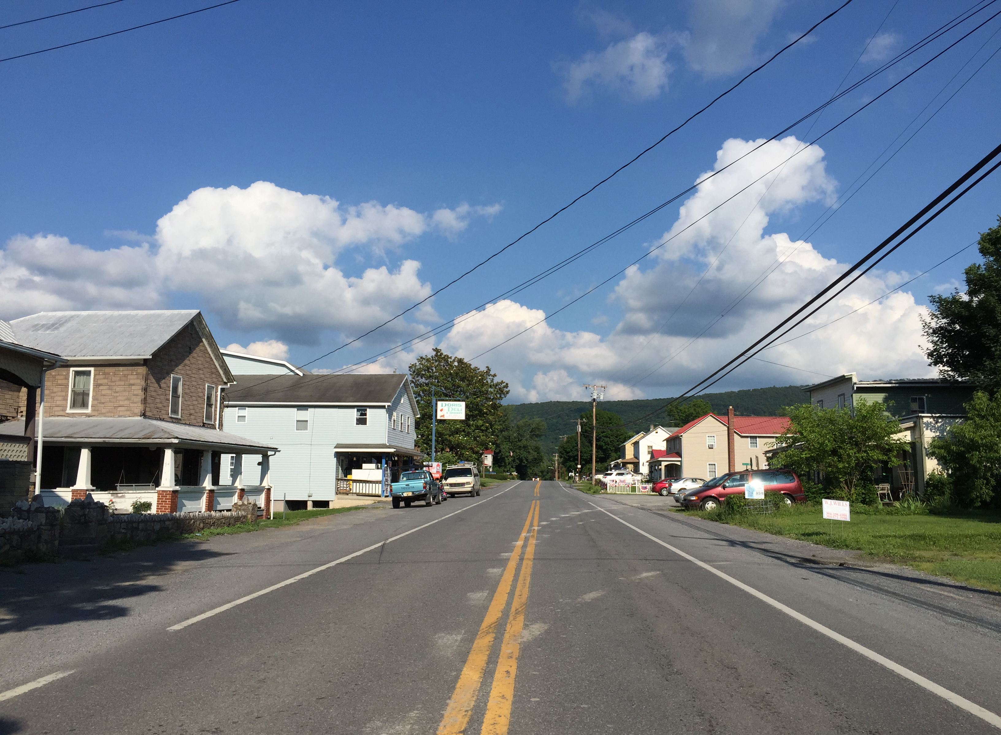 View east along West Virginia State Route 9 (Central Avenue) at Station Street in Great Cacapon, Morgan County, West Virginia